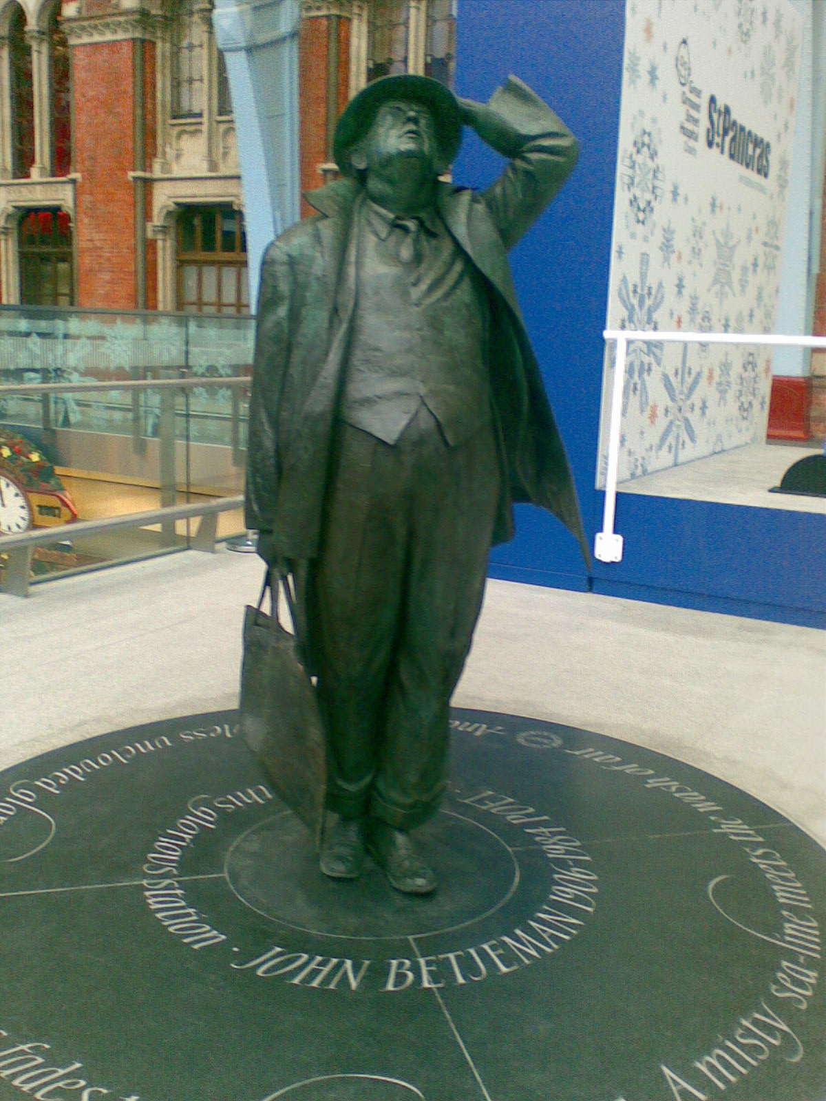 A photo of the statue of famous writer and poet John Betjeman at St Pancras Station in London. He is peering up into the glass roof of the station